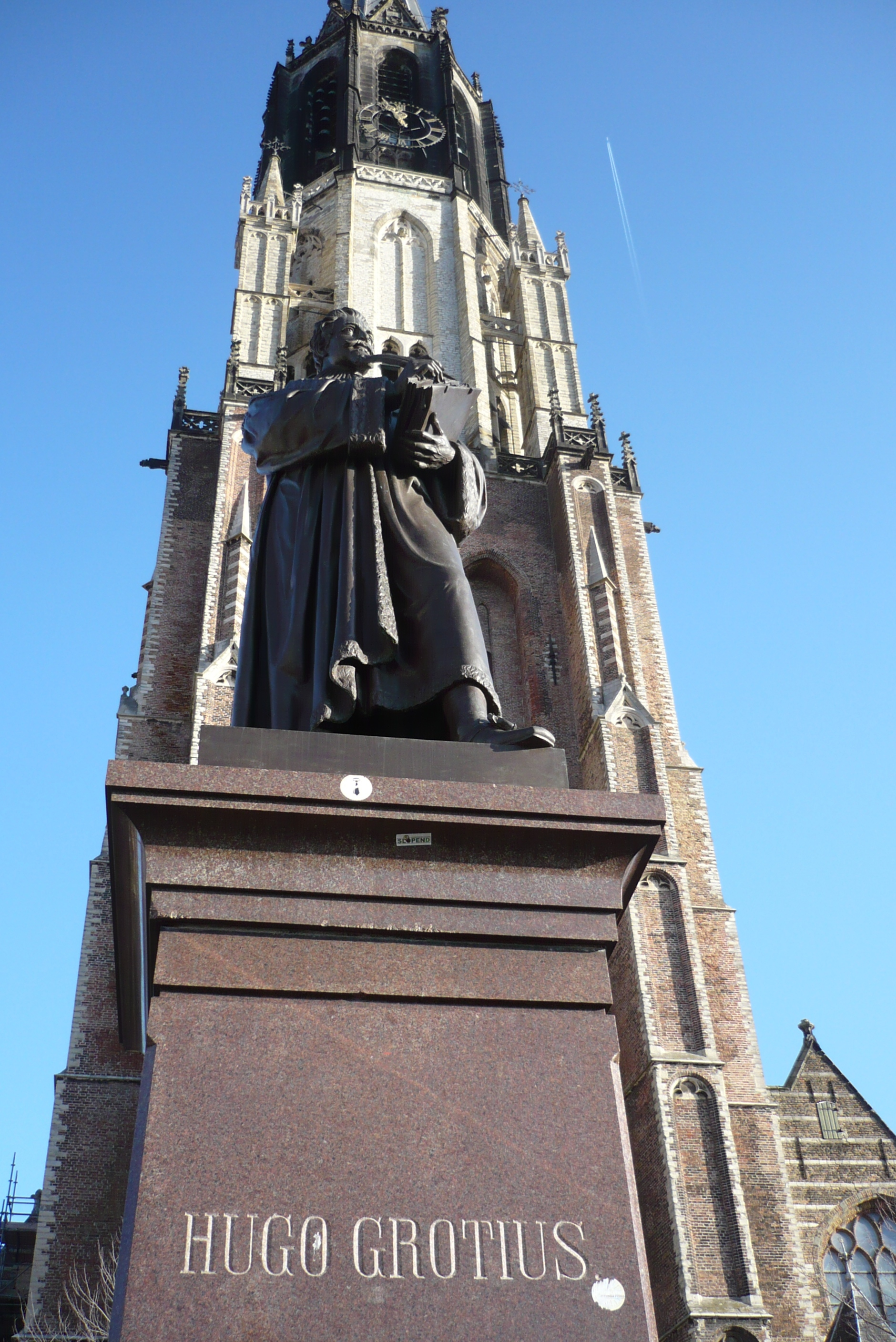 The statue of Hugo Grotius in Delft, the Netherlands.